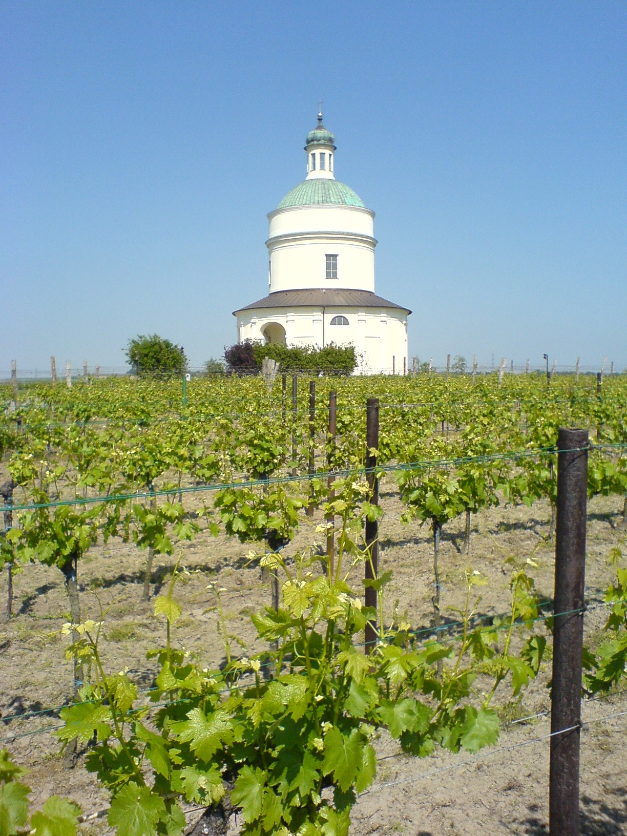 Rochuskapelle Mannersdorf